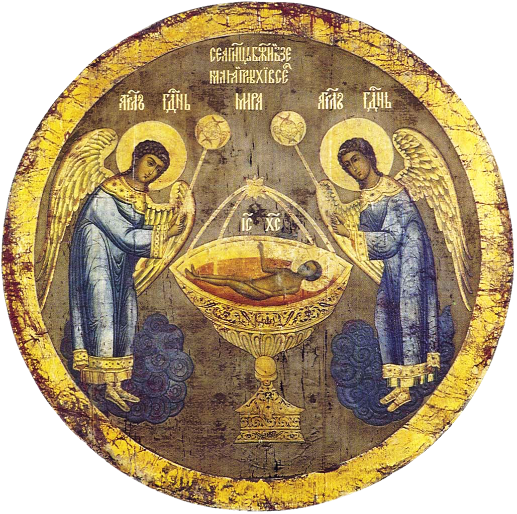 Icon of Christ Agnus Dei. 15 c. From book "Break the Holy Bread, Master" by Fr. Sergei Sveshnikov.